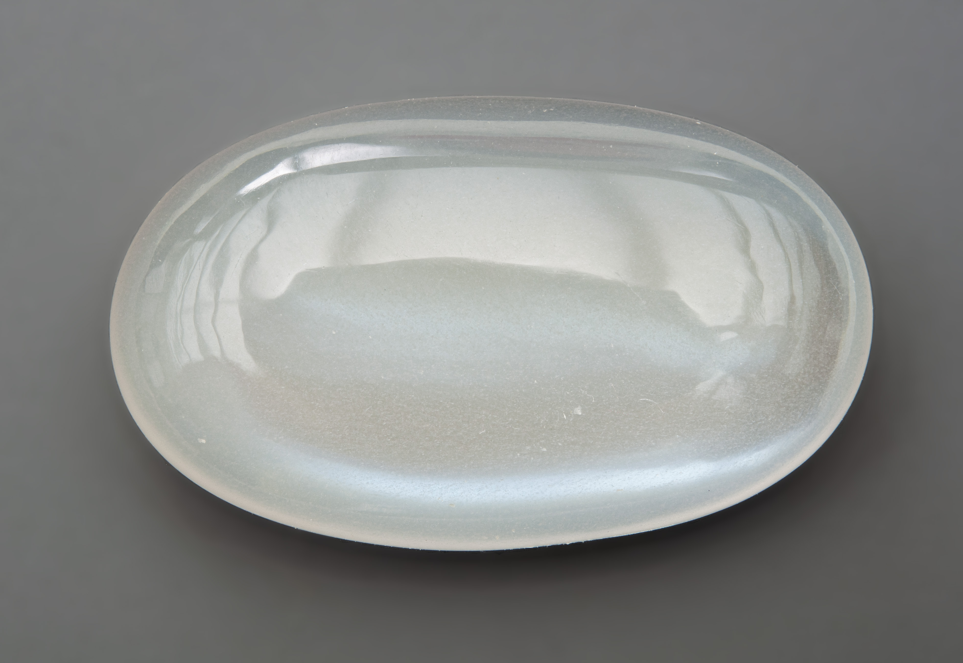 Moonstone 27mm long from the mine at Meetiyagoda in Sri Lanka